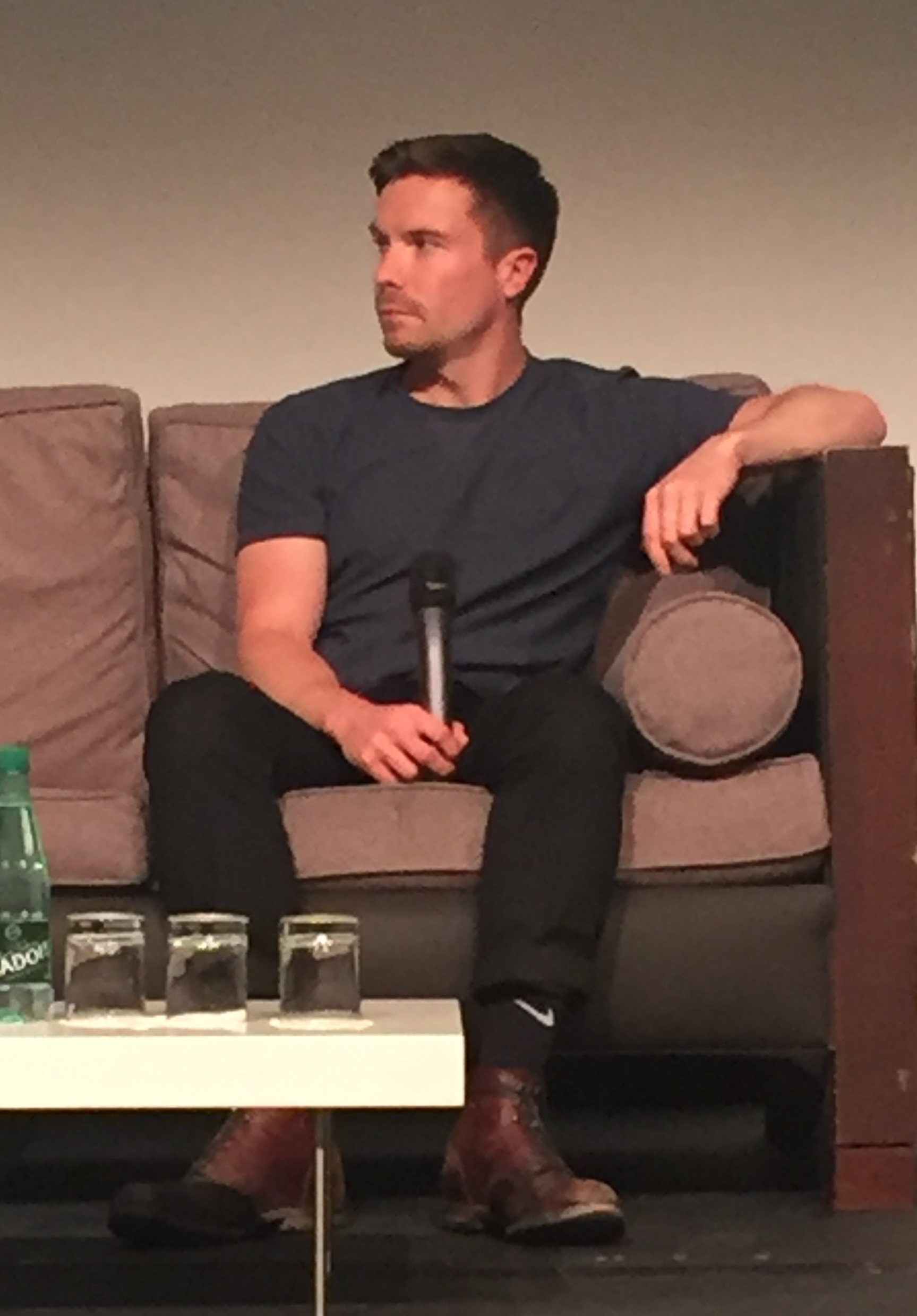 Actor Joe Dempsie at Paris, august 2018.